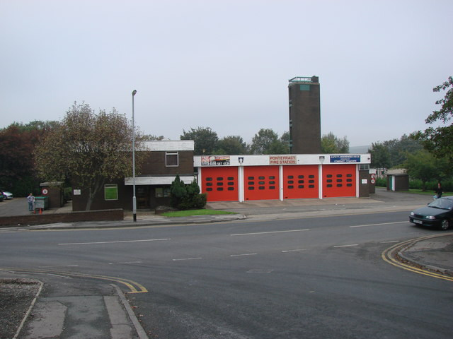 Pontefract Fire Station, Stuart Road, Pontefract